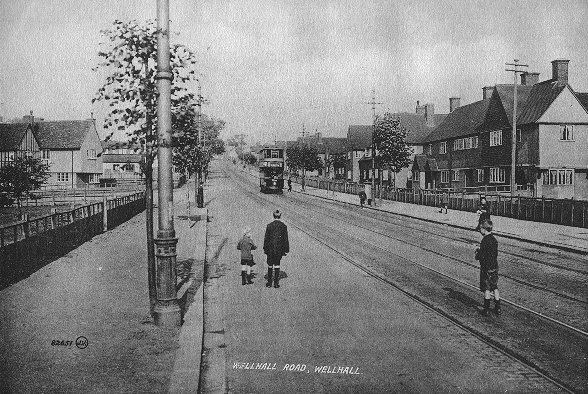 Black and white photograph of a tram travelling on Well Hall Road Eltham